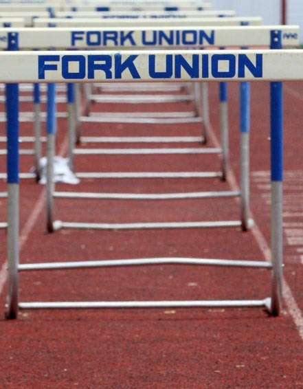 FUMA hurdles